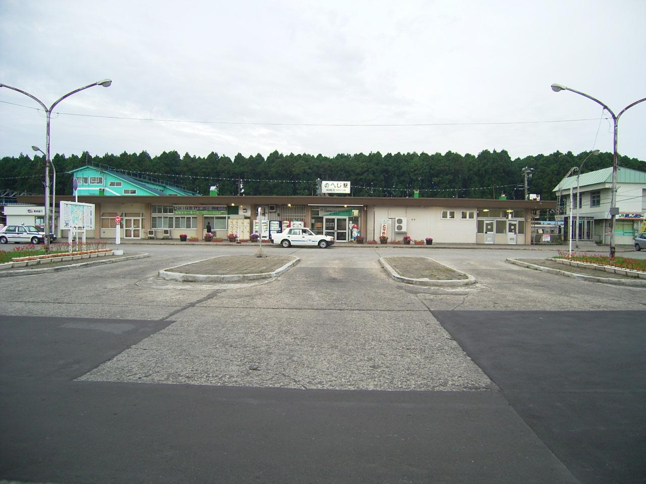 Noheji Station, on the Aoimori railway Aoimori line and Ōminato Line, Noheji, Aomorija:野辺地駅